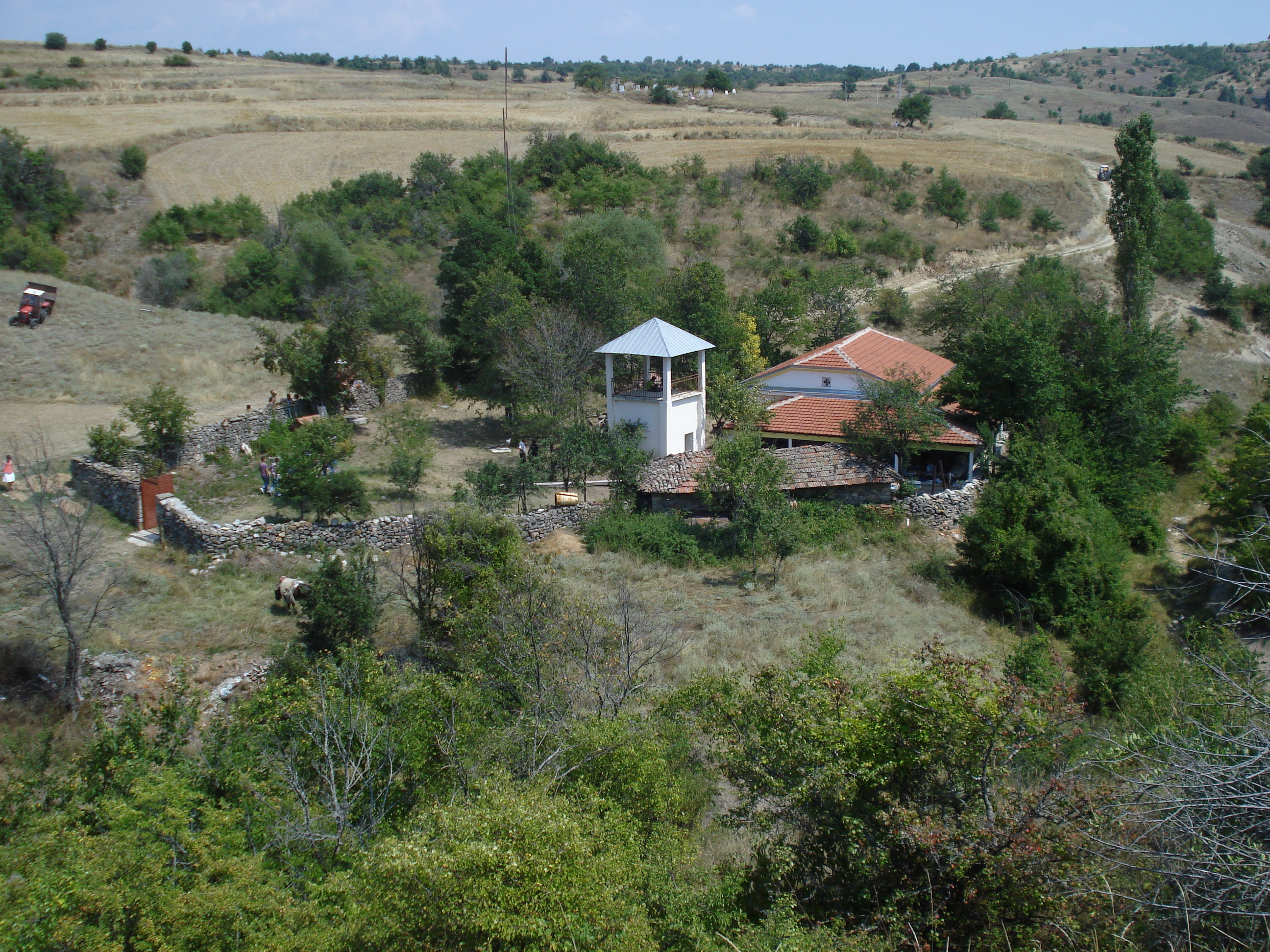 The village church "St. Paraskeva" in Dolno Barbarevo, Republic of Macedonia, built 1874.